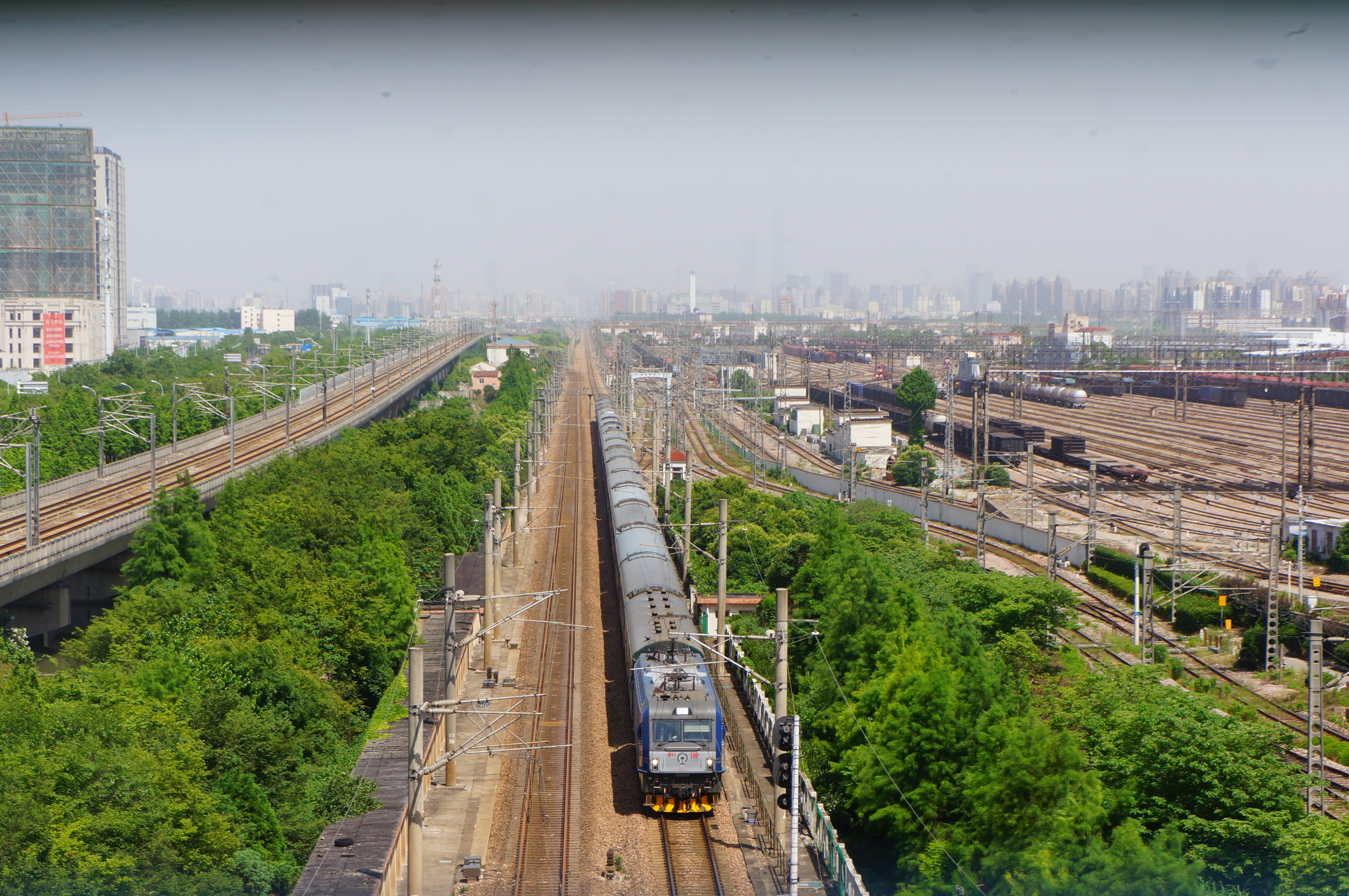 201805 HXD3C hauls K1152 to Chongqingbei-South at Nanxiang